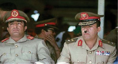 Al Hamdi an Al Ghashmy in an anniversary of 22 September 1962